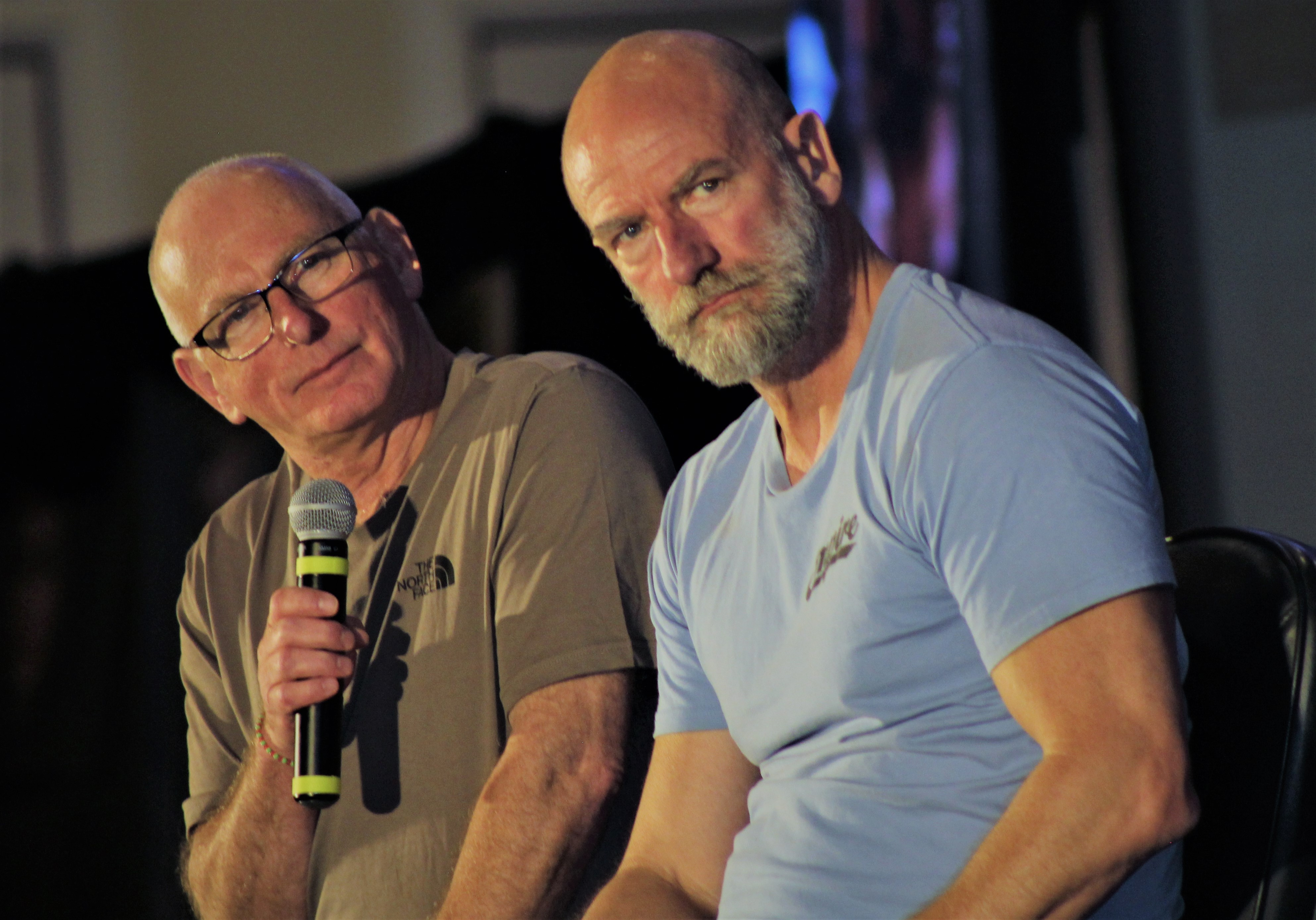 Gary Lewis (and Graham McTavish) answer fan questions during their panel at Creation Entertainment's Las Vegas, Nevada (USA) Outlander Convention on 15 July 2018.